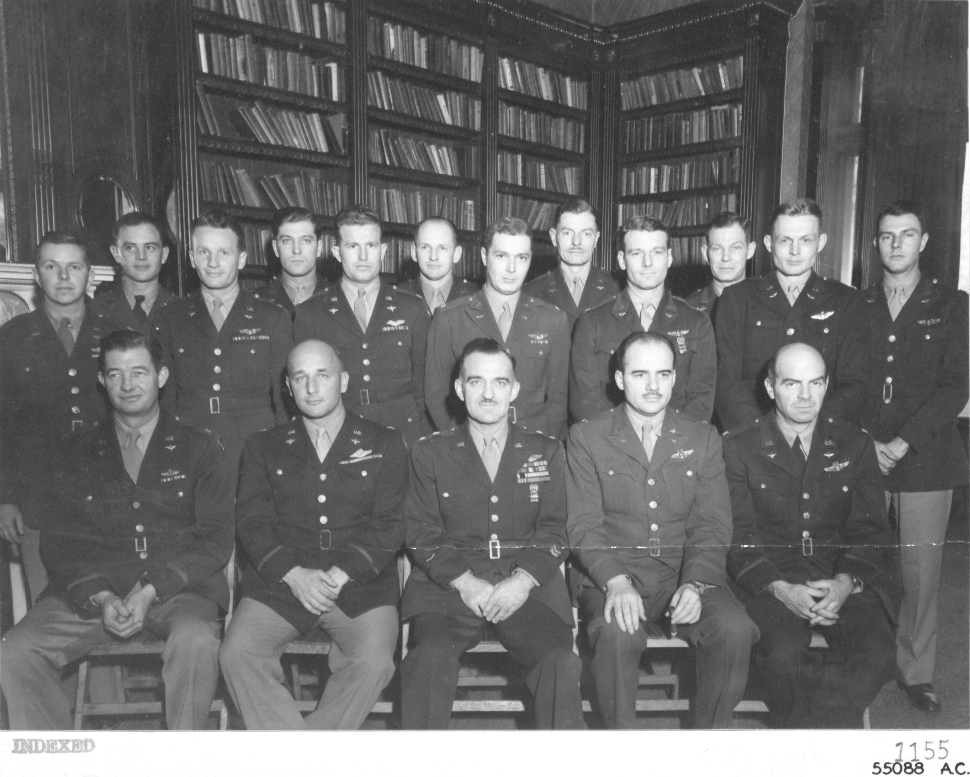 Maj Gen William E Kepner and members of his command Rear L to R: Col Hubert Zemke, Lt Col Donald J M Blakeslee, Col Frank B James, Lt Col Einar A Malmstrom, Col Joe Lennard Mason, Lt Col Thomas Jonathan Jackson Christian Jr Middle L to R: lt Col Edwin Shepard Chickering, Col James J Stone Jr., Lt Col Glenn E. Duncan, Col William James Cummings Jr, Col Avelin Paul Tacon Jr, Col Barton M Russell. Seated L to R: Col Edward W Anderson, Col Murray Clark Woodbury, Maj Gen William E. Kepner, Col Jesse Auton, Col Francis H. Griswold.